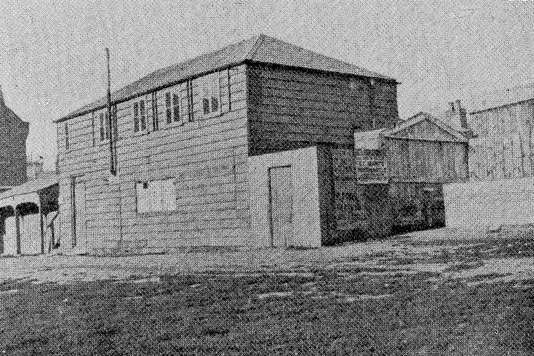 The players' dressing room at the Antelope Ground sports ground, which was demolished in 1896